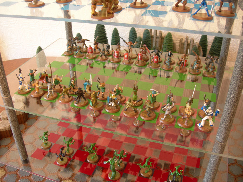 Dragonchess middle board - user set & pic